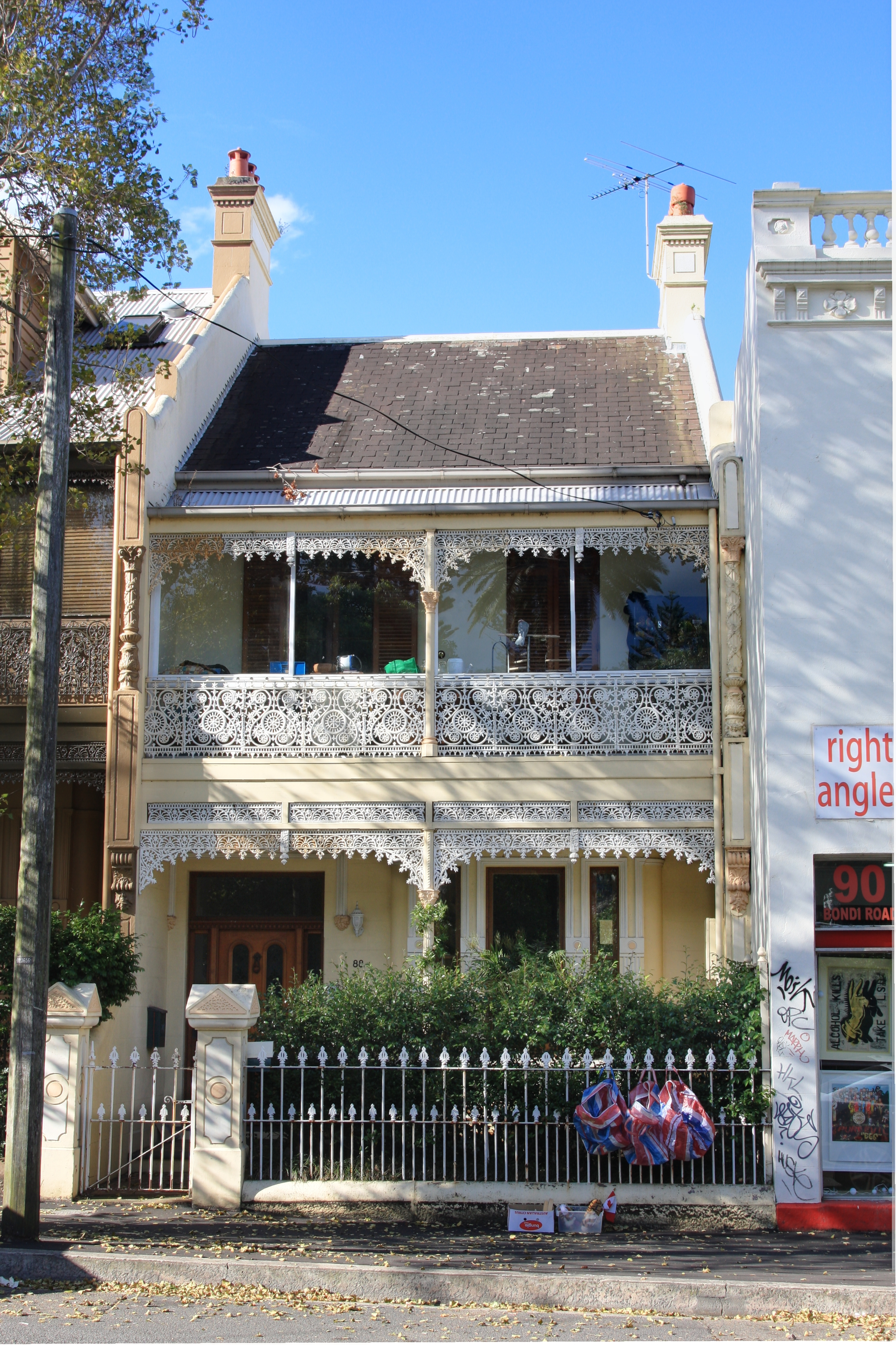 Terraced house Bondi